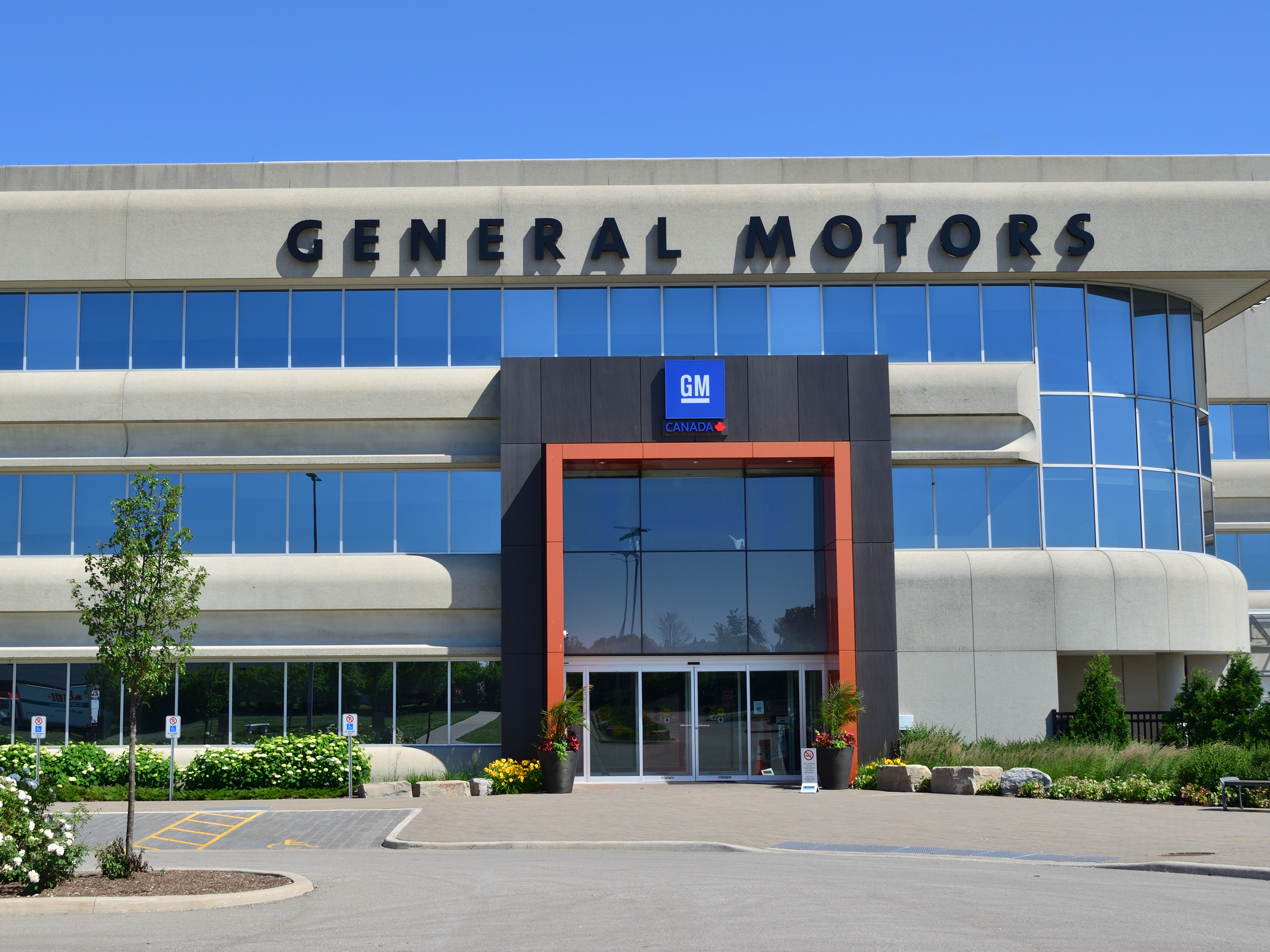 General Motors Canada office - Address: 101 McNabb St, Markham, ON L3R 4H8